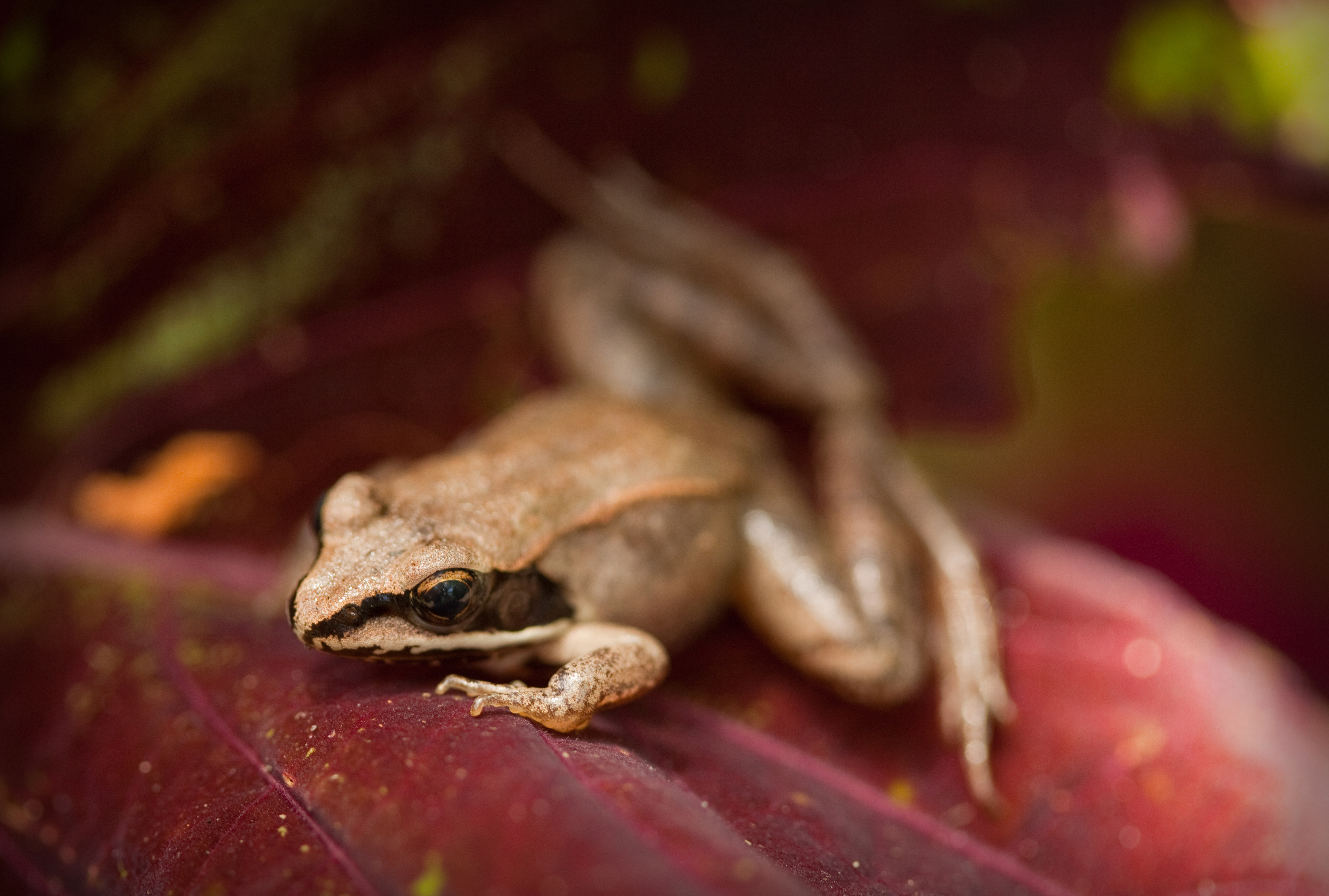 Wood Frog in the New Jersey Pine Barrens. Displaying lighter skin tone.